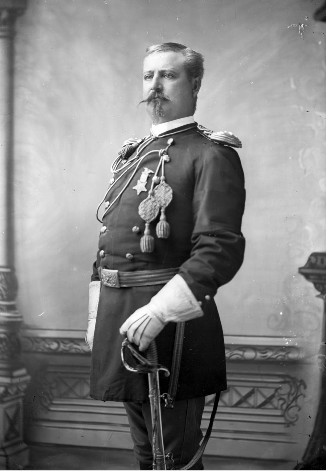 Thomas Mower McDougall, 7th Cavalry Seventh Cavalry, in uniform and holding sword.